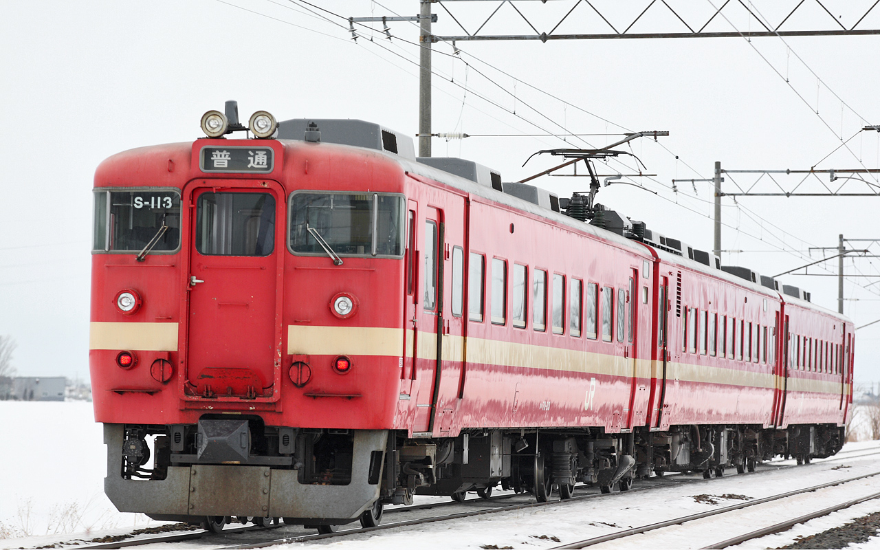 JR Hokkaido's JNR 711 series EMU ( Minenobu Stn. - Iwamizawa Stn. )